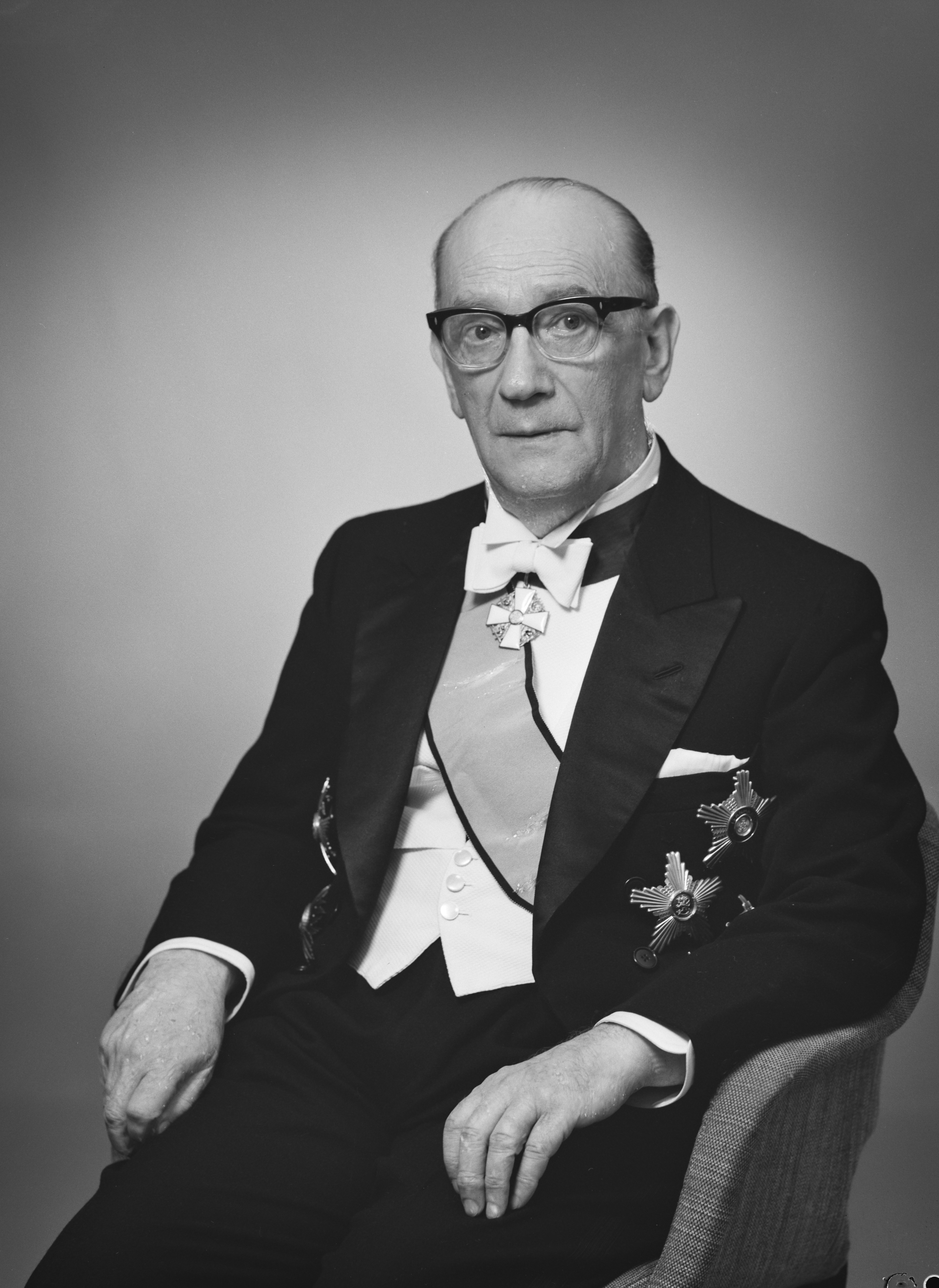 Photograph of the Finnish diplomat Niilo Orasmaa (1889–1970).